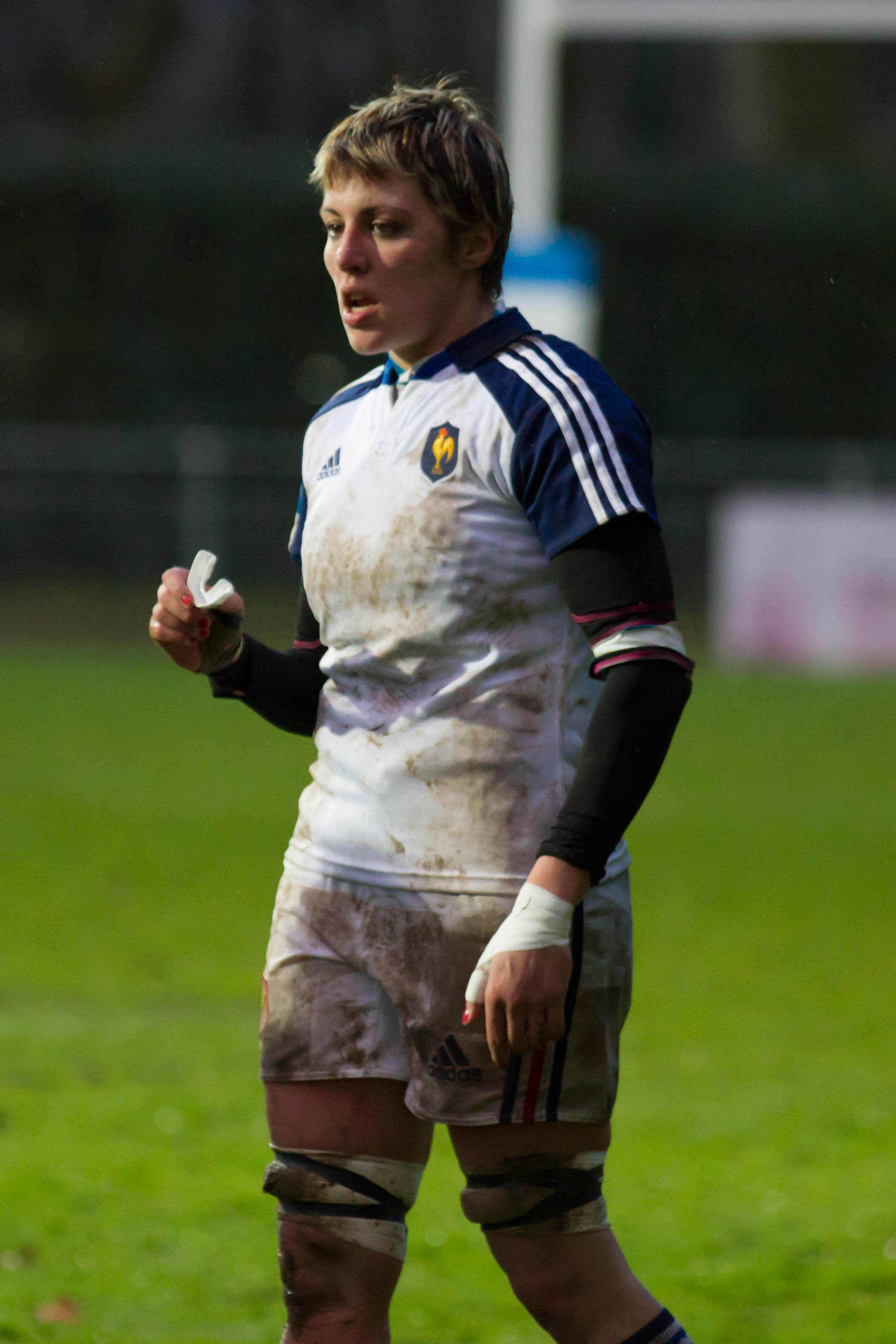 2014 Women's Six Nations Championship — 9 February 2014, Stade Ernest Argeles. Match between: France women's national rugby union team — Italy women's national rugby union team